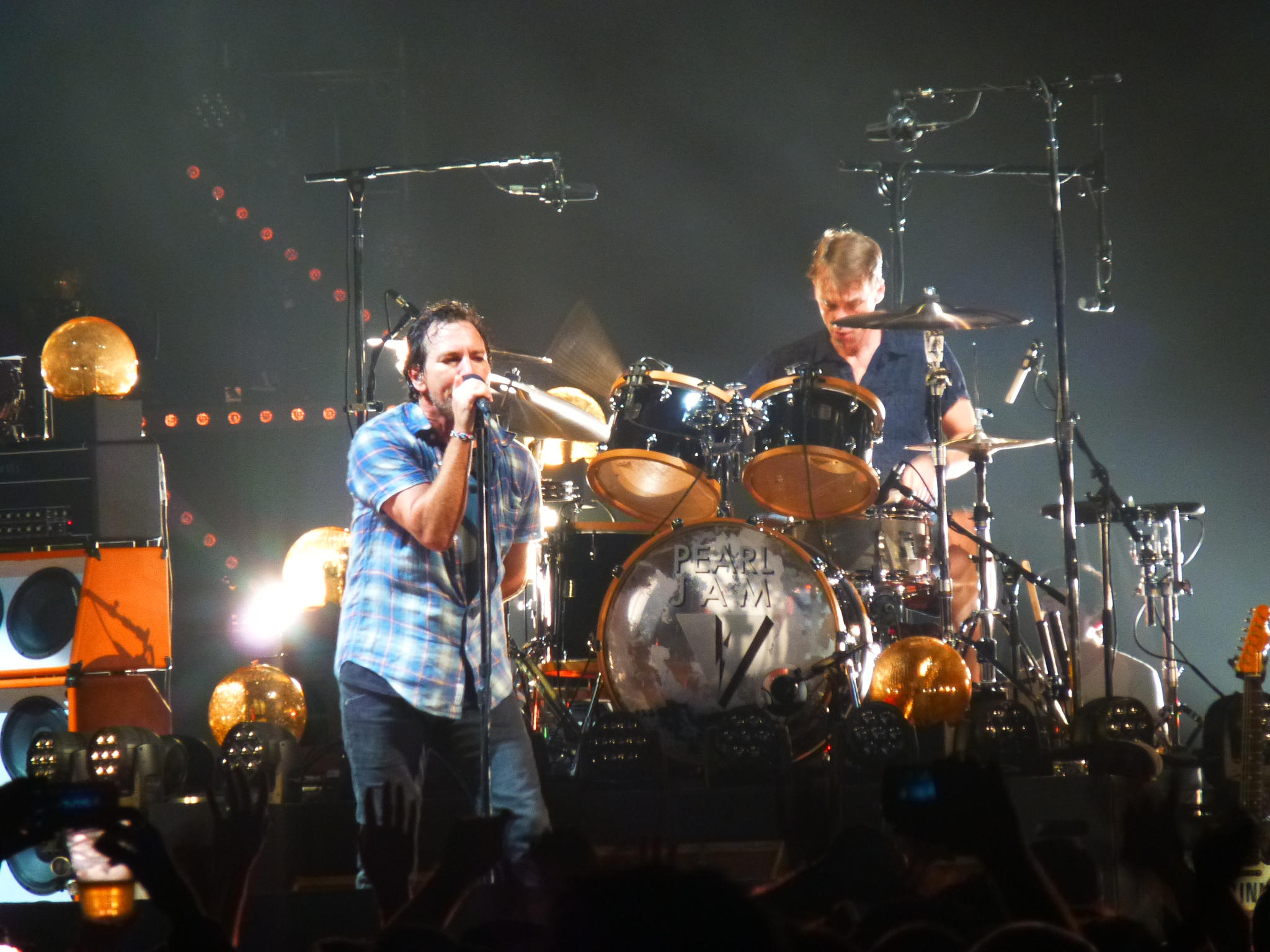 Pearl Jam (singer Eddie Vedder and drummer Matt Cameron) playing in 2013 at the Barclays Centre, Brooklyn